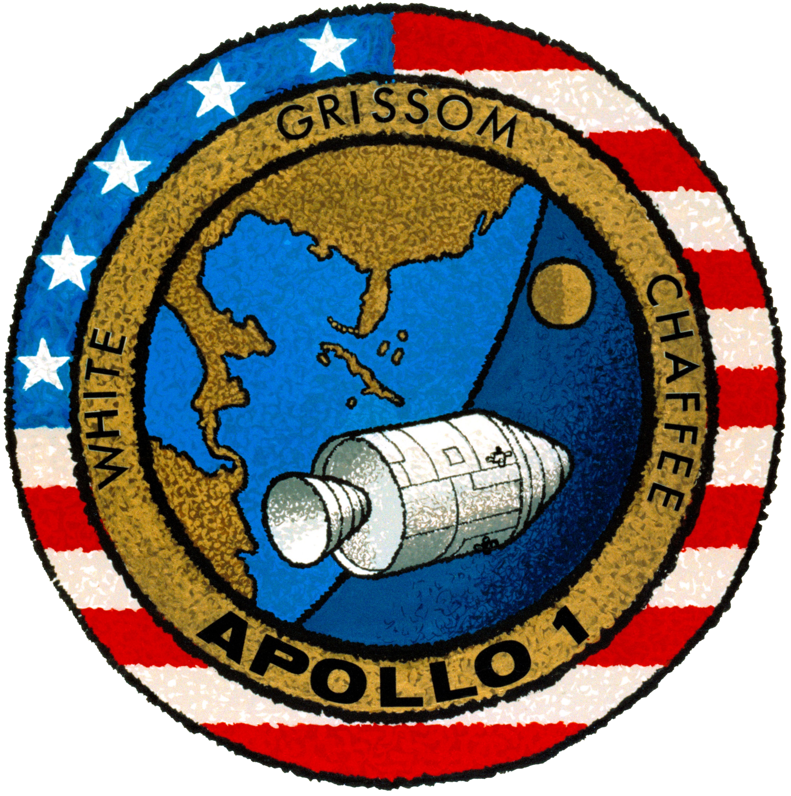 This is the insignia for the National Aeronautics and Space Administration's (NASA) Apollo 1 mission, the first manned Apollo flight. Crew members are astronauts Virgil I. Grissom, Edward H. White II and Roger B. Chaffee.